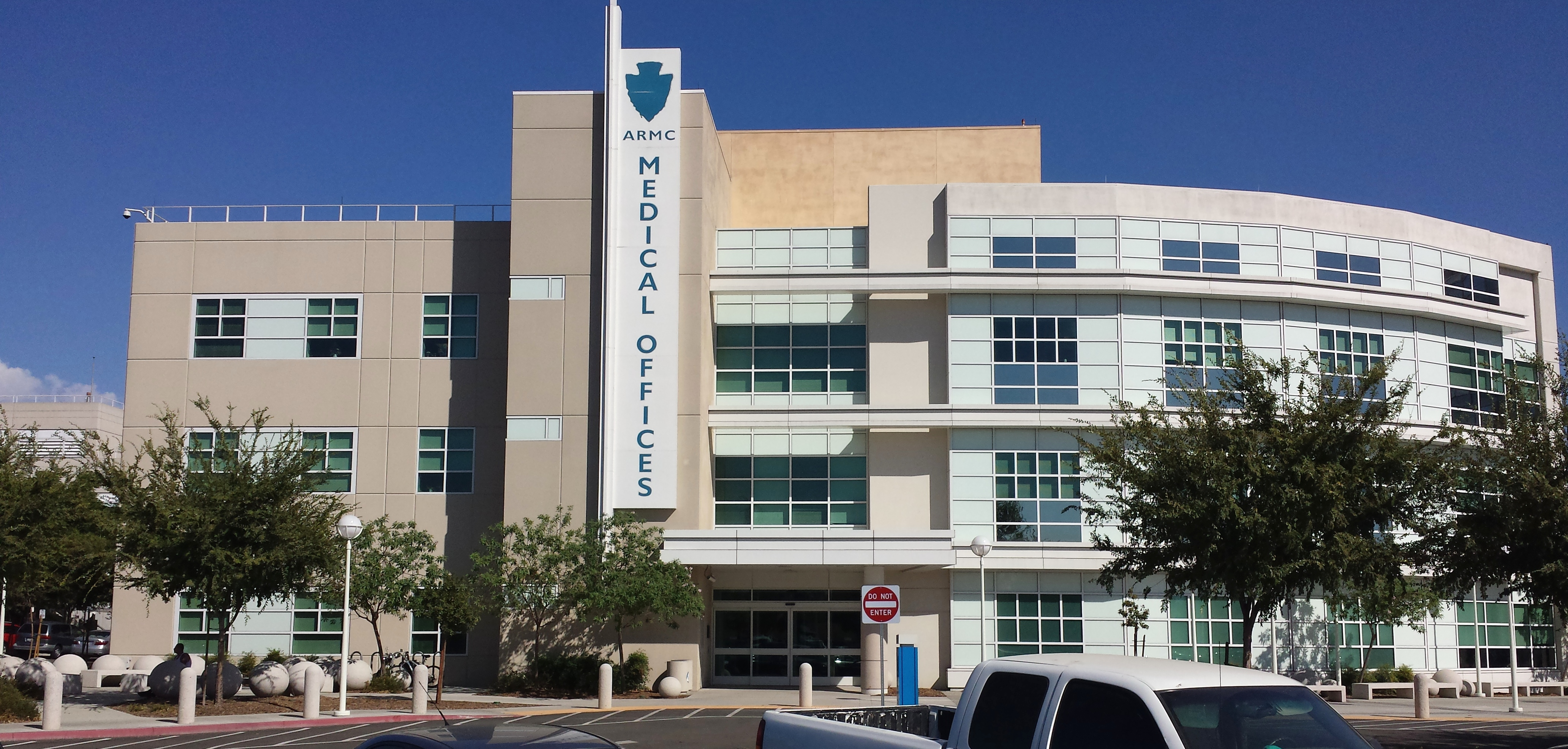 The medical office building of Arrowhead Regional Medical Center in Colton, California.